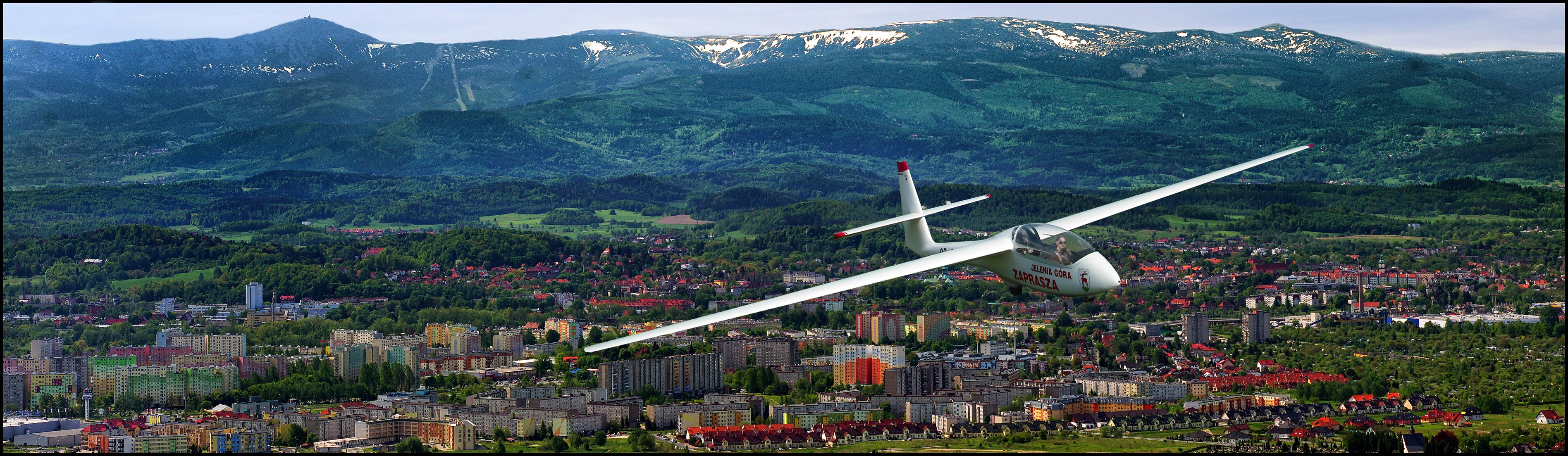 Jelenia Góra - Glider